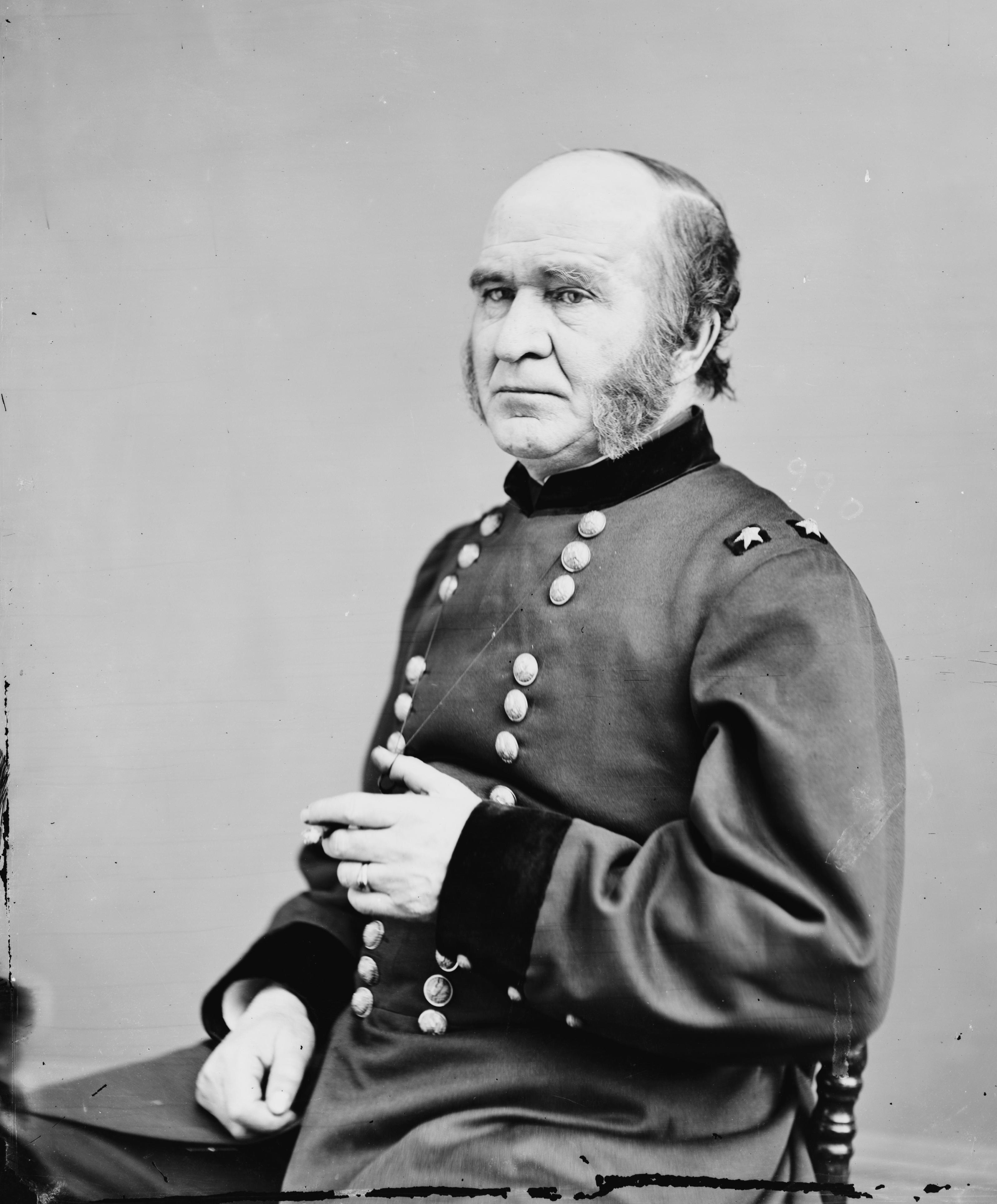 Benjamin S. Roberts ( November 18, 1810 – January 29, 1875) was an American lawyer, civil engineer, and a general in the Union Army during the American Civil War (This summary was created using Commons SumItUp). Library of Congress description: "Gen. B. S. Roberts, U.S.A."